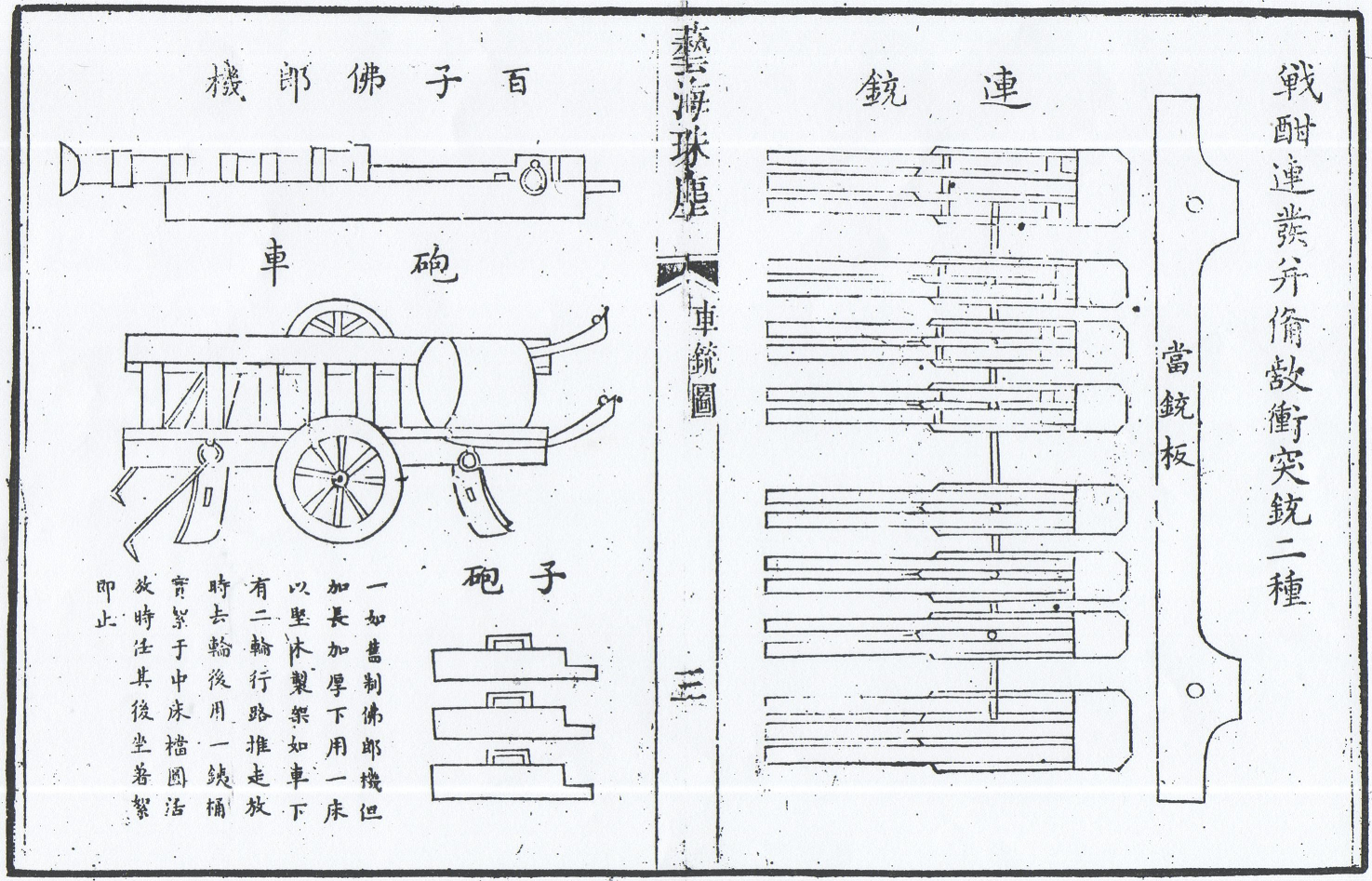 Ming ribauldequin and breech-loading cannon.